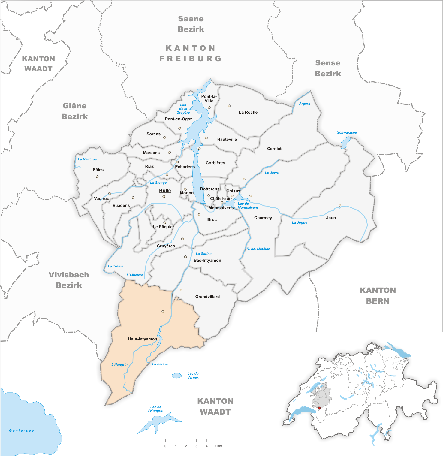 Municipality Haut-Intyamon